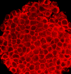 Mouse P19 embryonal carcinoma cells immunostained to show the location of beta-catenin at cell-to-cell contacts. User:JWSchmidtMy personal image. Summary Mouse P19 embryonal carcinoma cells immunostained to show the location of beta-catenin at cell-to-cell contacts. My personal image.